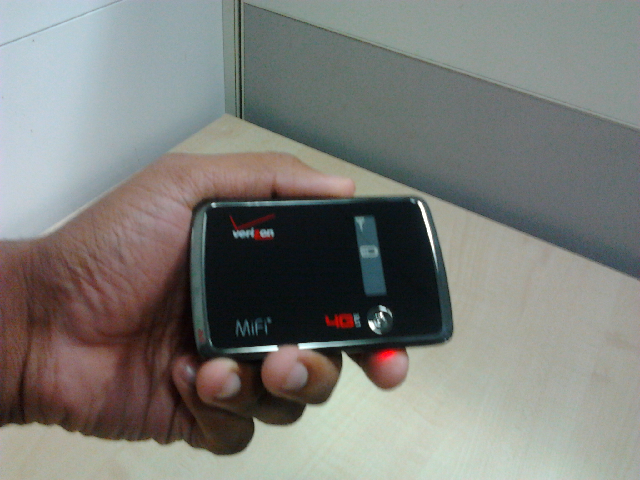 Photoed using Samsung Wave 525.